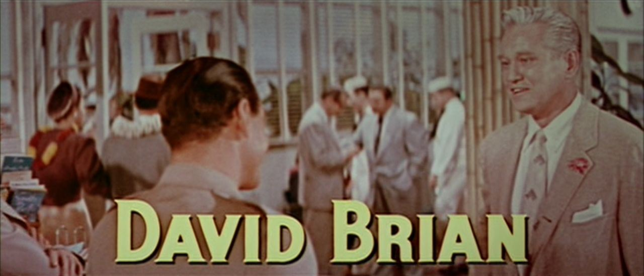 Screenshot showing David Brian from the film The High and the Mighty.